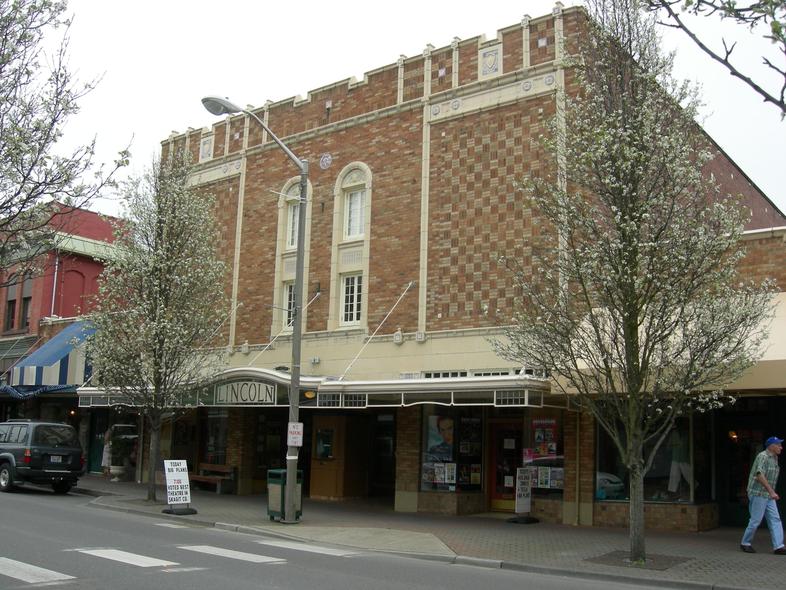 Lincoln Theater (built 1926), Mount Vernon, Washington.